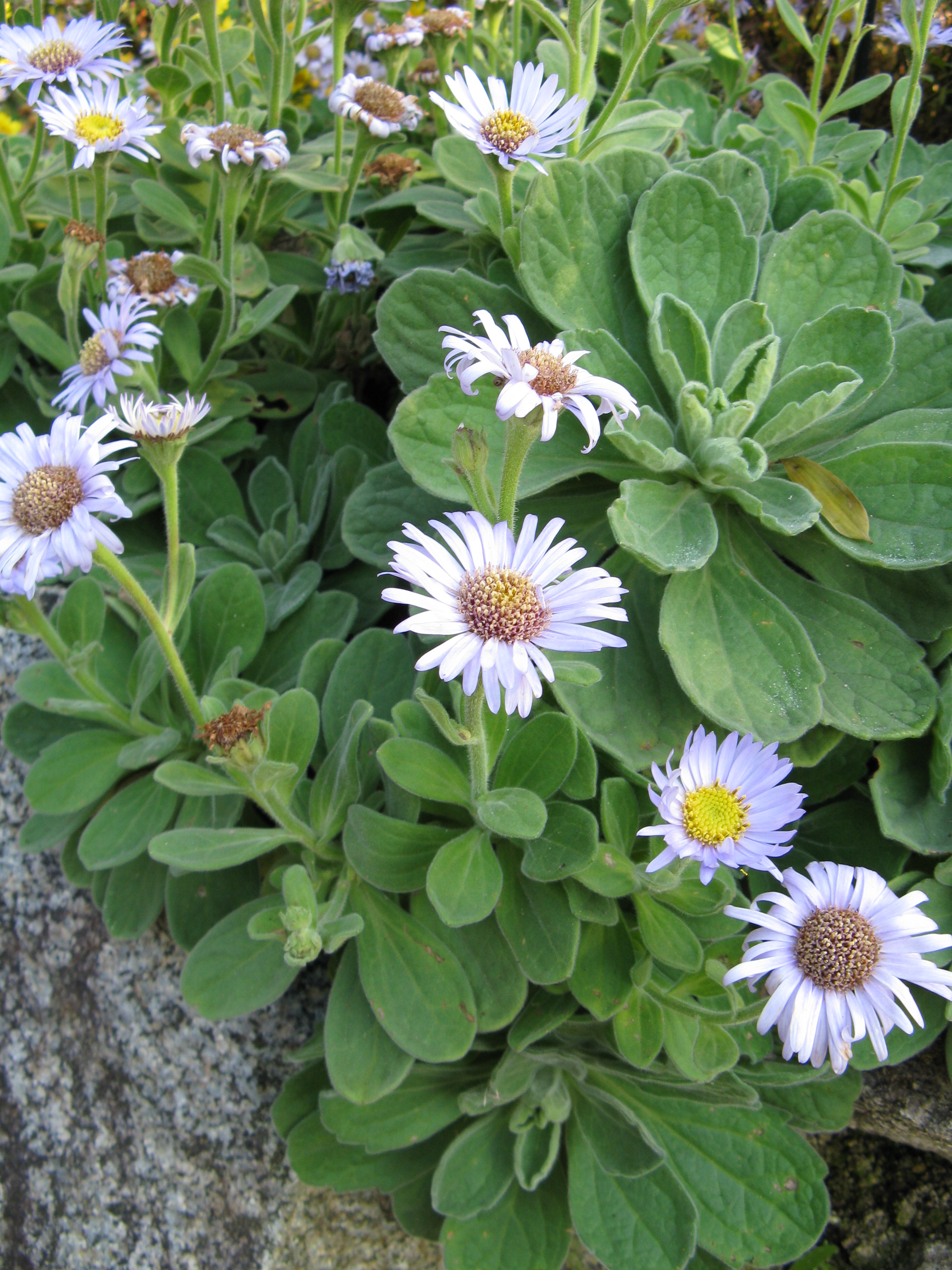 Scientific name Aster spathulifolius